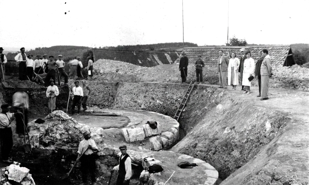 Excavations of the Assumption Cathedral in Galich, 1936